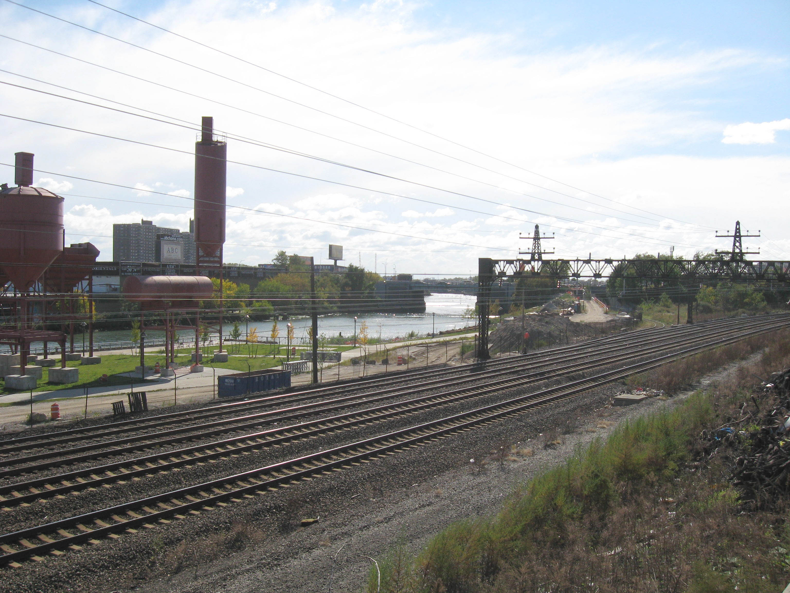 Looking south from Sheridan Expressway, near where 167th Street would be, at tracks once belonging to New Haven Railroad (Harlem River line), now to Amtrak, and the Bronx River on a sunny late morning. Concrete Plant Park, background left, not yet open. ZIP 10059.